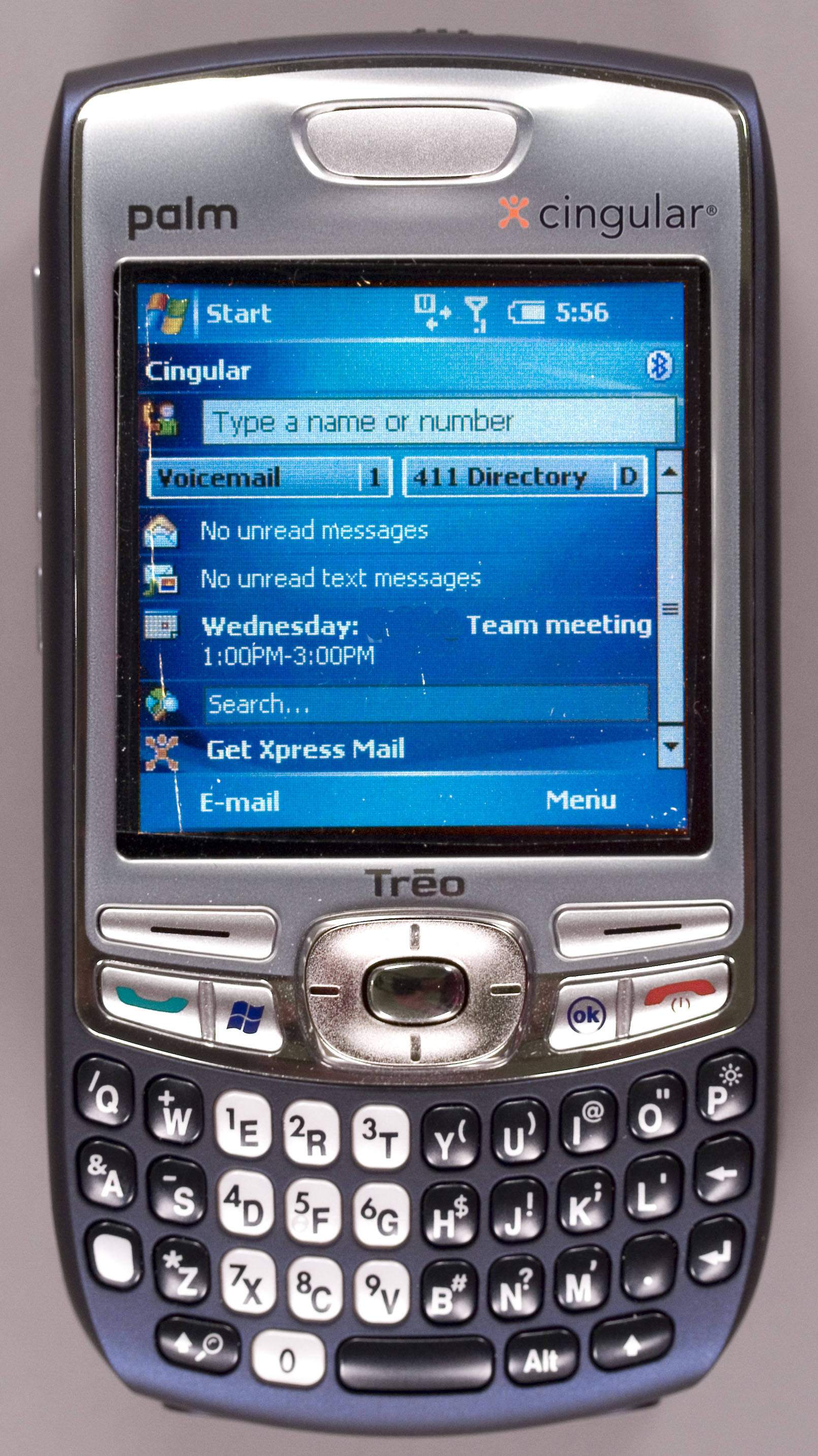 Photograph of a Palm Treo 750 Smartphone, branded for use on the AT&T (formerly Cingular) wireless network in the US).